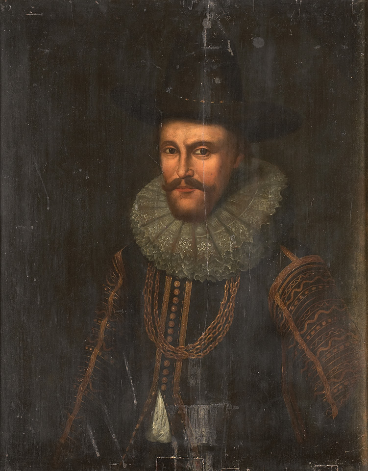 Portrait of Laurens Reael (1583-1637), Governor-General of the Dutch East Indies from 1616 to 1619. Part of the Governors-general series.